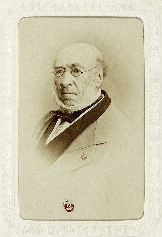 François-Édouard Picot (1786-1868), neoclassical french painter.